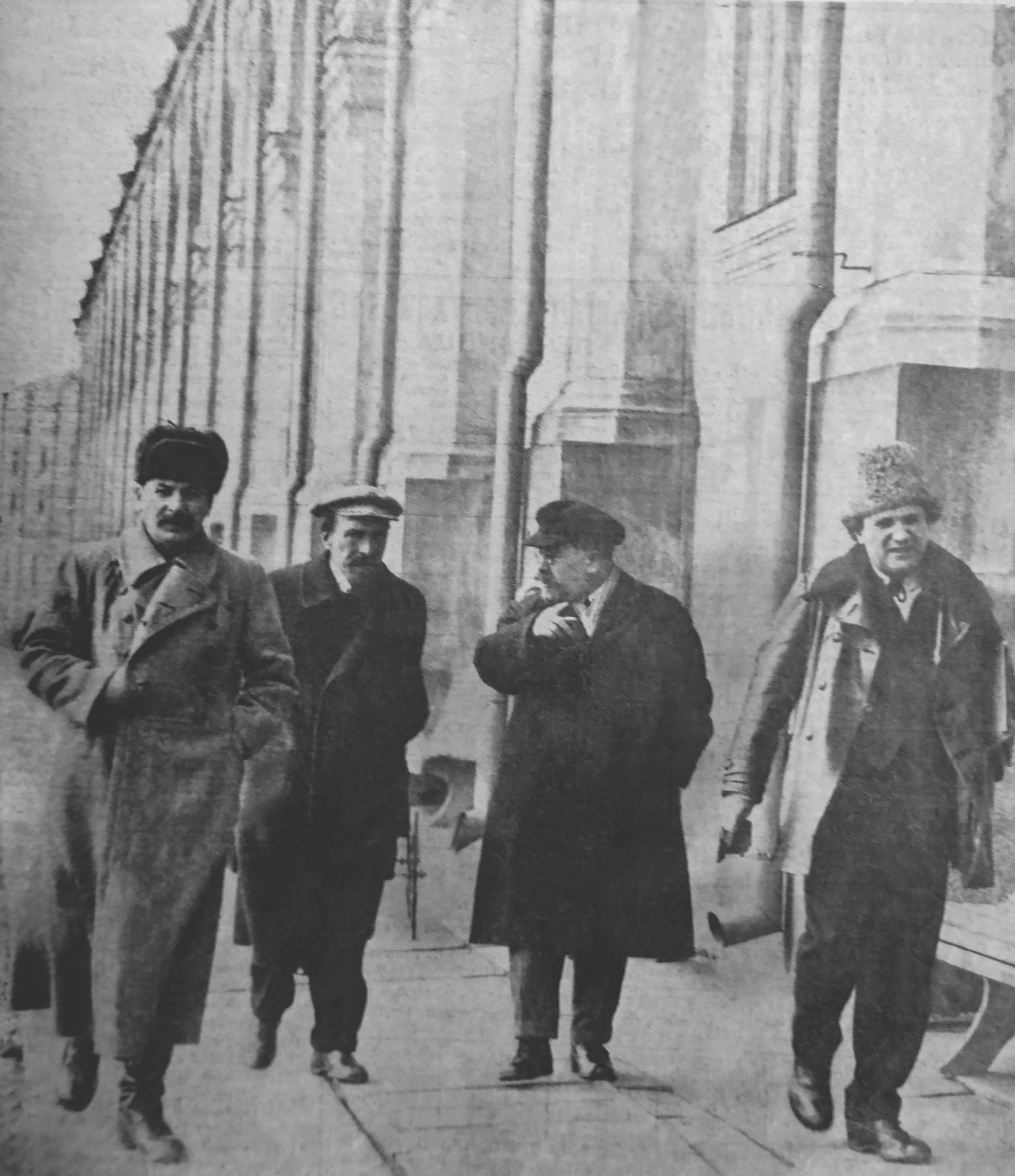 The photo shows the leadership of USSR Apr 1925. On the photo taken in Kremlin: Joseph Stalin, General Secretary of the Communist Party. Alexei Rykov, Chairman of the Council of People's Commissars (Prime Minister). Lev Kamenev, Deputy Chairman of the Council of People's Commissars (Deputy Prime Minister). Grigory Zinoviev, Chairman of the Comintern's Executive Committee. Context: following Lenin’s death in Jan 1924, the Soviet leaders started the factional war within the one party state headed by the Communist (Bolsheviks) party. The period ended by 1929 when Joseph Stalin became de-facto dictator of the Soviet Union and established one of the most brutal regime in history. Lev Kamenev and Grigory Zinoviev were executed in 1936 following the court case known as Trial of Sixteen . Alexei Rykov was executed in 1938 following the show court case known as Trial of Twenty One.